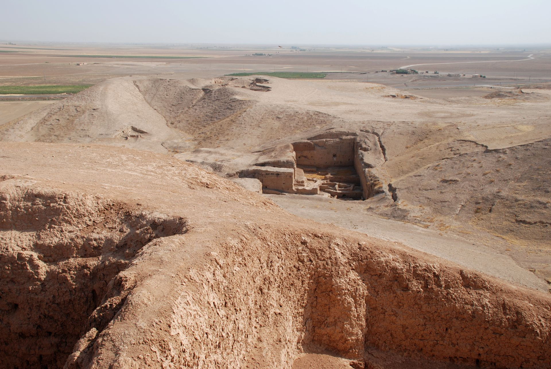 Tell Brak, Syria, northeast part